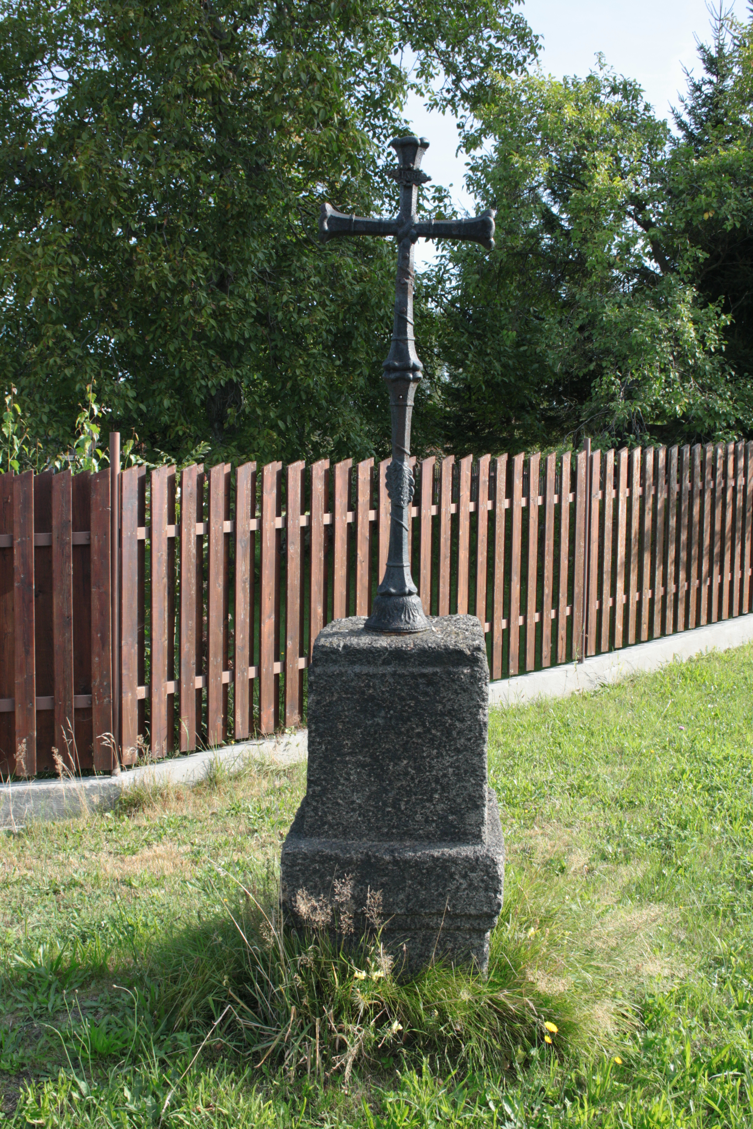 This photograph was taken with a DSLR from WMCZ's Camera grant. Boží muka v Hajništi.